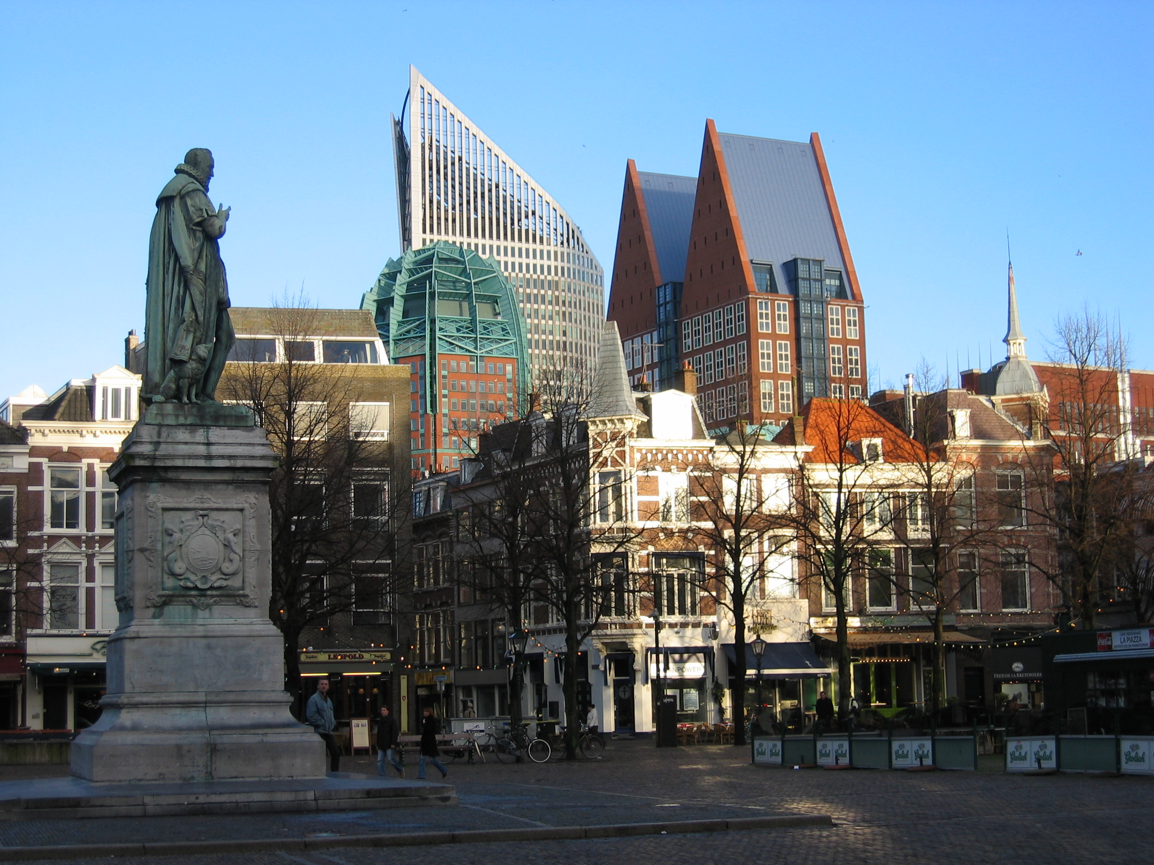 Het Plein - meaning just 'the square' in the center of the Hague, the Netherlands